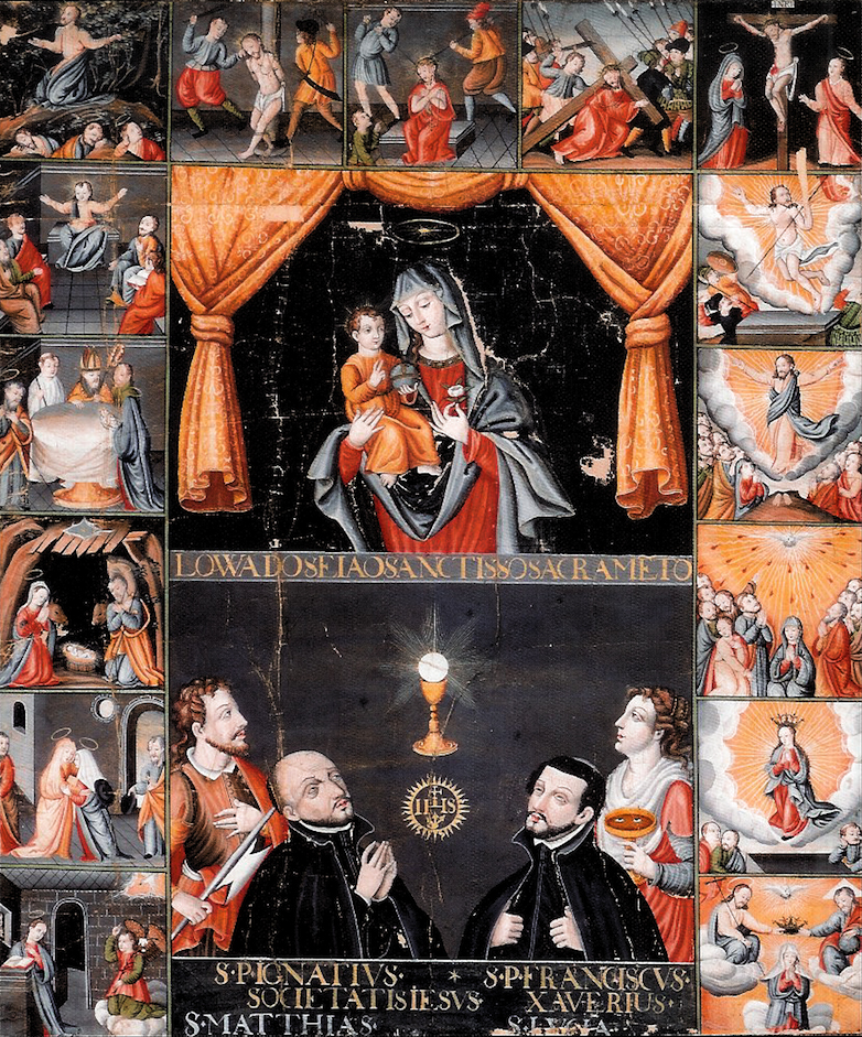 Fifteen Mysteries of the Virgin Mary, Kyoto University Museum, Japan. (There is a similar painting in Ibaraki, Osaka: [1])